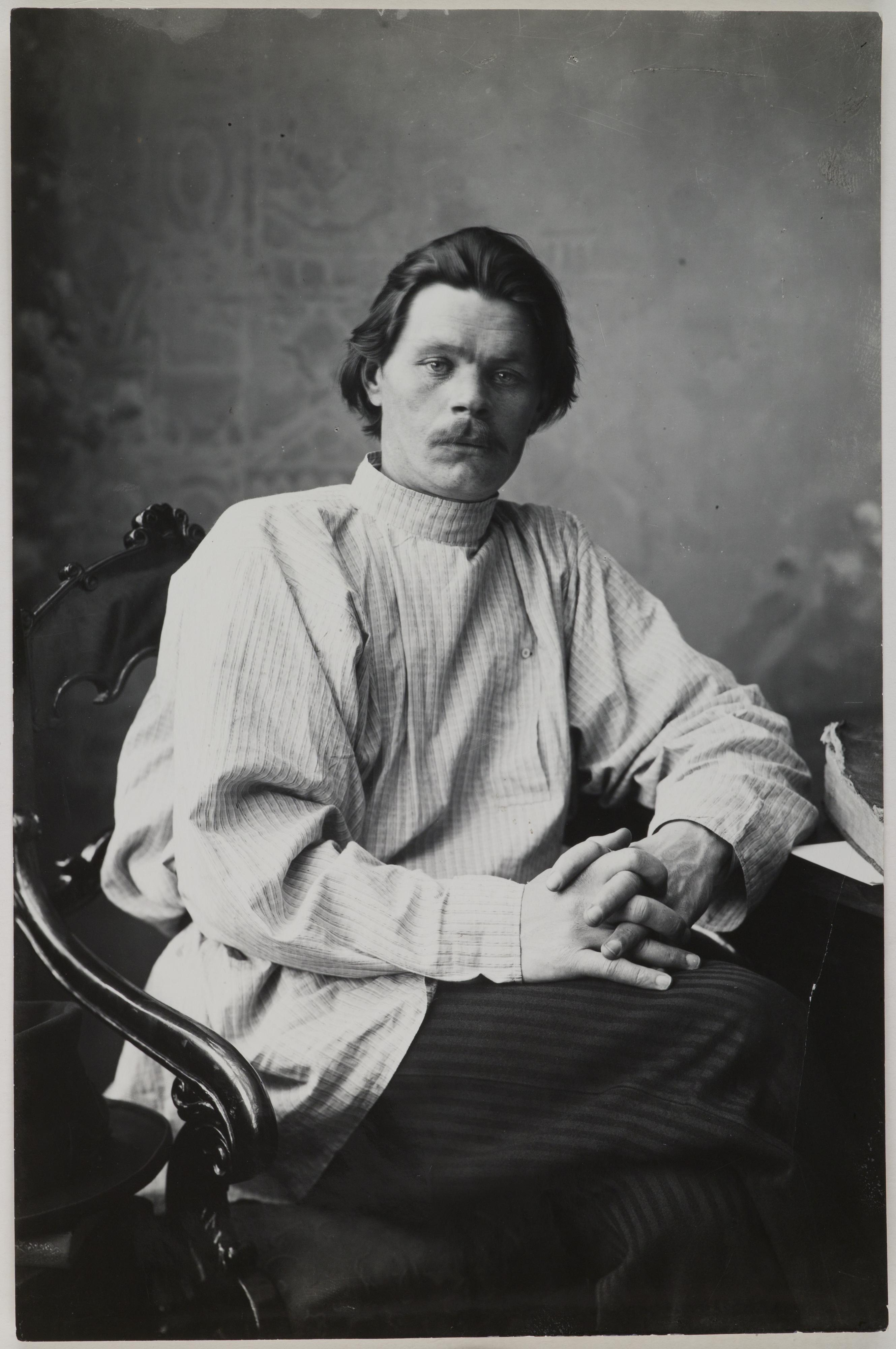 Maksim Gorkin muotokuva. Gorkin museo lähetti kuvan Kirsti Gallen-Kallelalle 1956. kuvauspaikka: ajoitus: kuvaaja: kuva-alan mitat: 229x149mm tekniikka: merkintöjä: inventointinumero: GKM_VV_1322 kokoelma: Akseli Gallen-Kallelan valokuvakokoelma tutki lisää / explore further: Tiedätkö lisää tästä kuvasta? Kerro meille! Do you have information on this photo? Let us know!